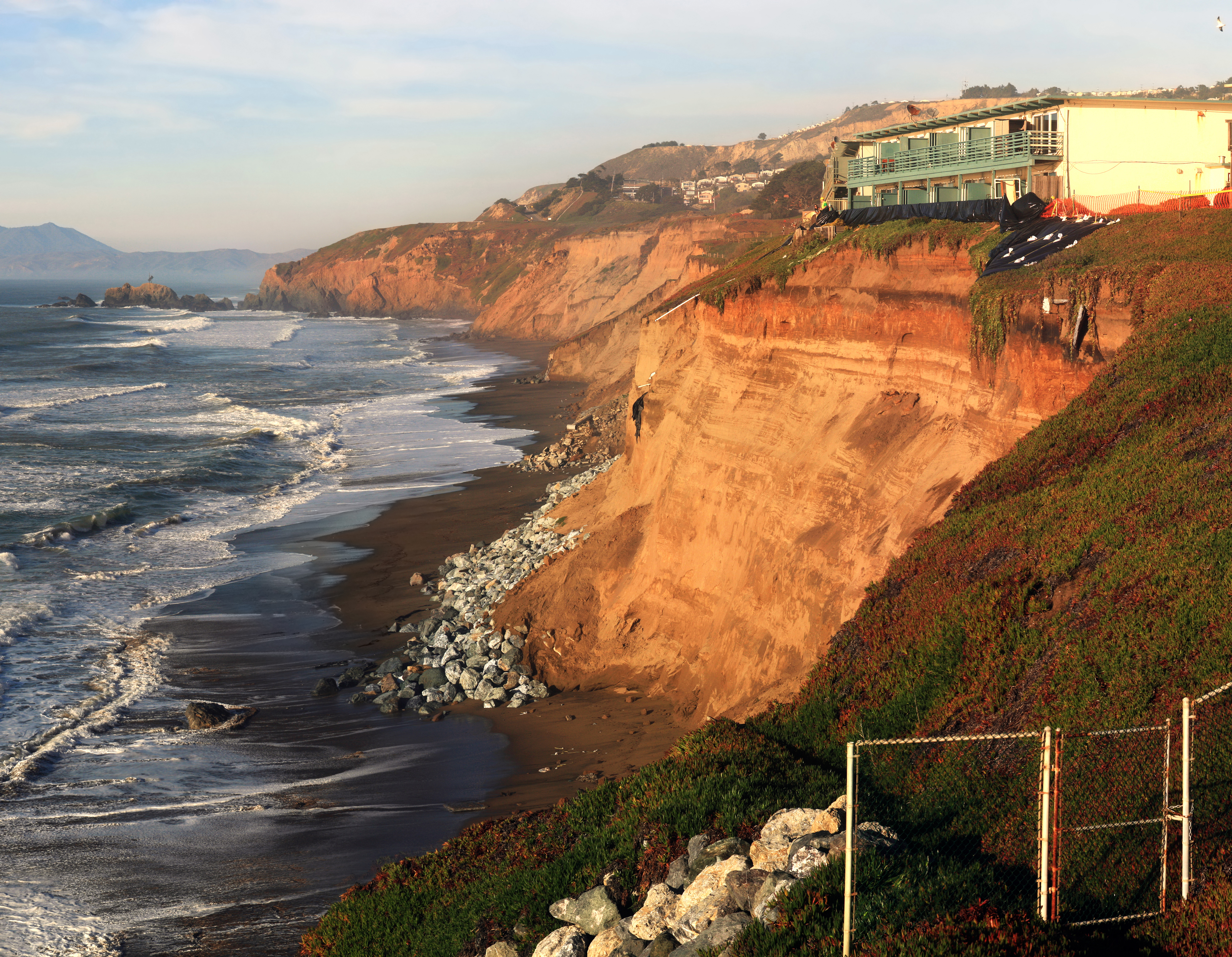 On December 17, 2009 30 feet chunk of the cliff below the apartment building fell to Pacific Ocean. Residents were given 20 minutes to evacuate the building. Now the workers are trying to save it.